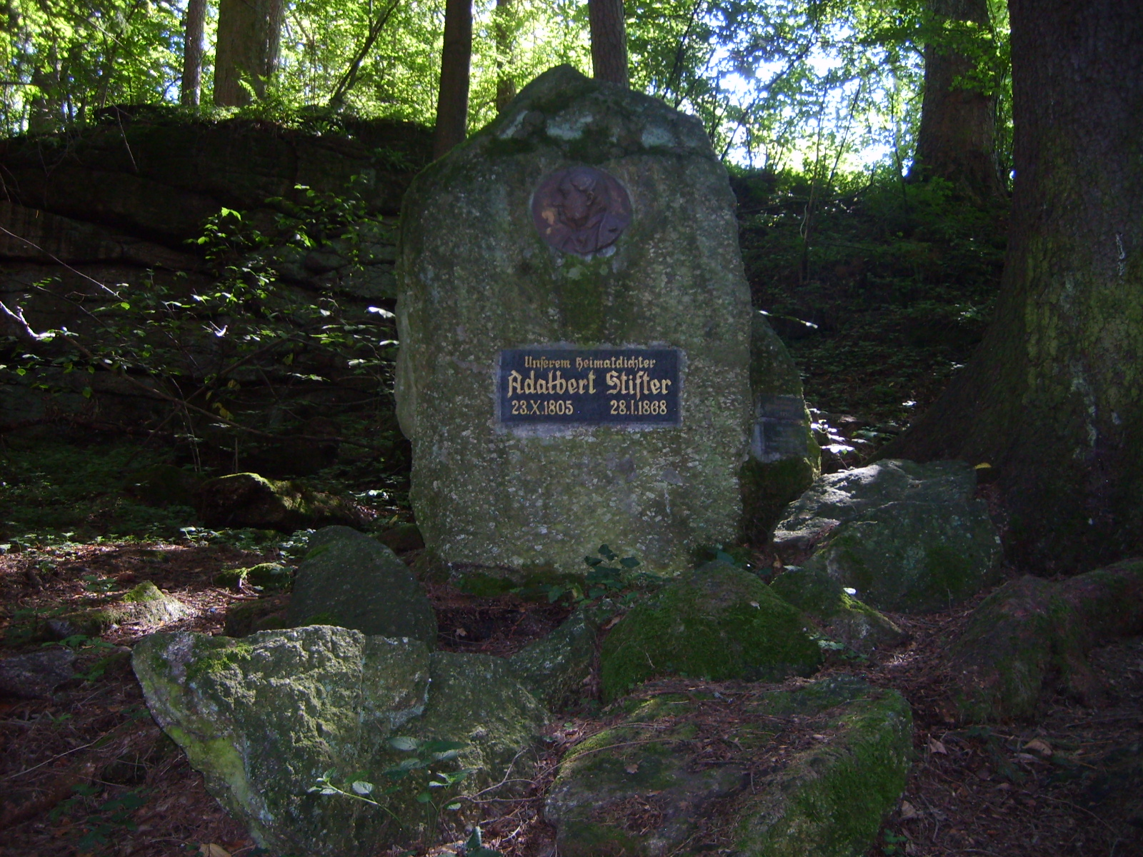 Adalbert Stifter monument in the valley of Černá